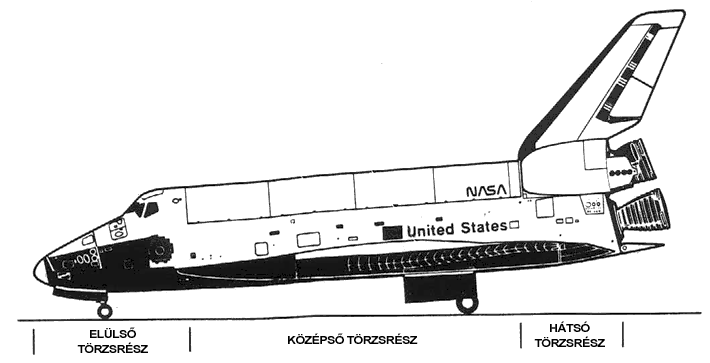 Space Shuttle config